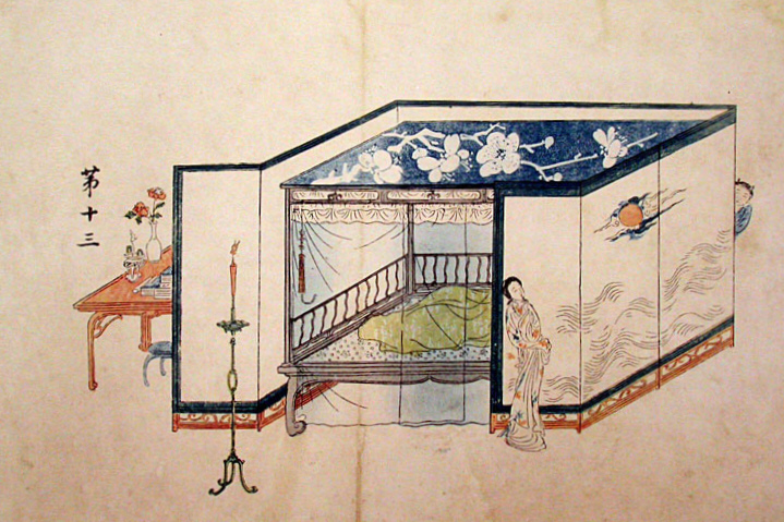 The chinese fourposter, from Min Qiji’s album „The Romance of the Western Chamber“